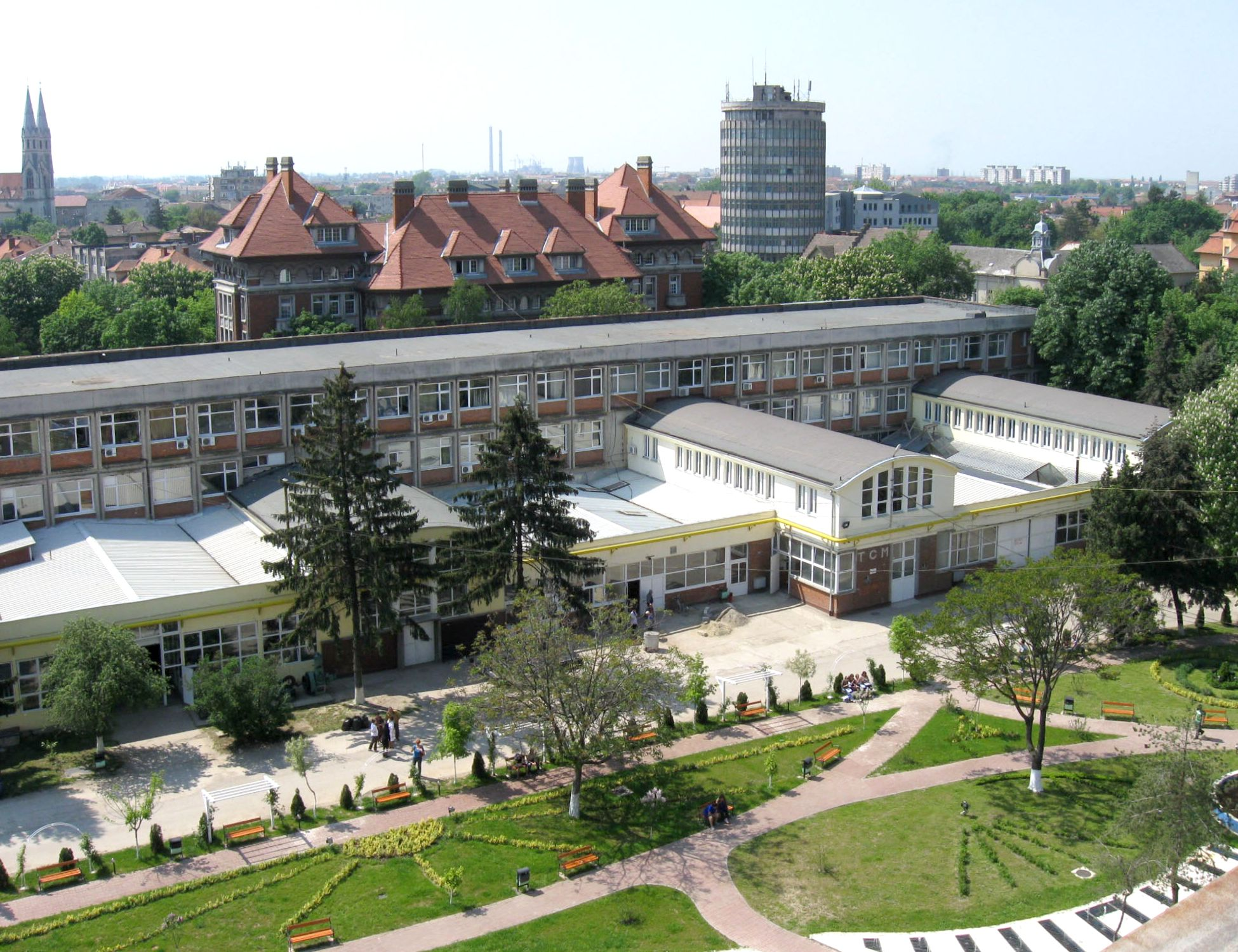 Laboratories in the courtyard of the Faculty of Mechanical Engineering of Timişoara and the UMP building.